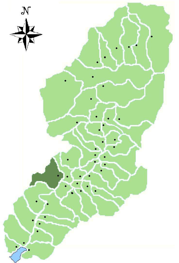 Map of the Comune di Borno, Valle Camonica